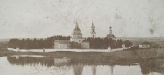 Tsipino_Pogost. Old photo by Brilliantov